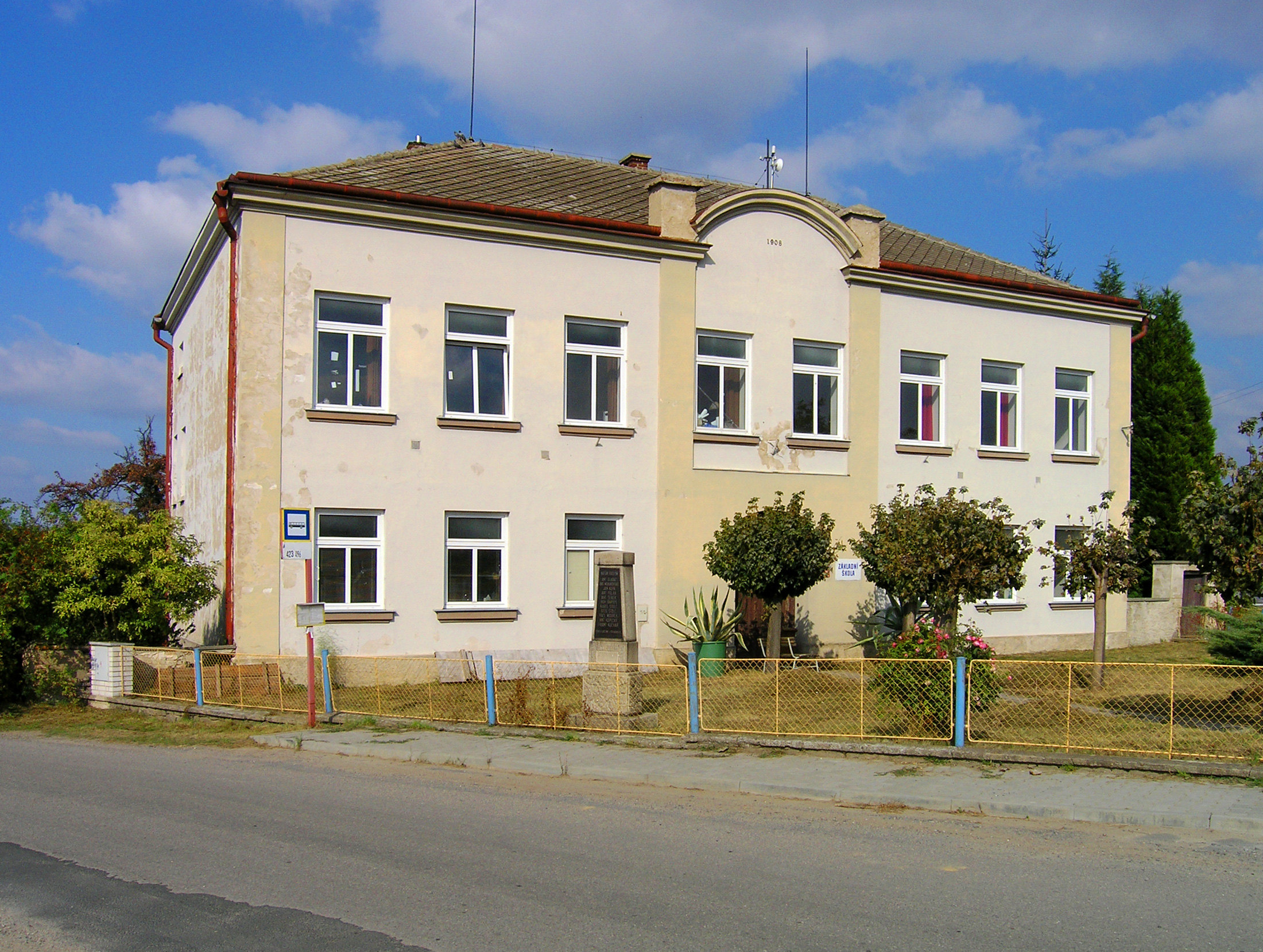 School in Třebohostice, part of Škvorec village, Czech Republic